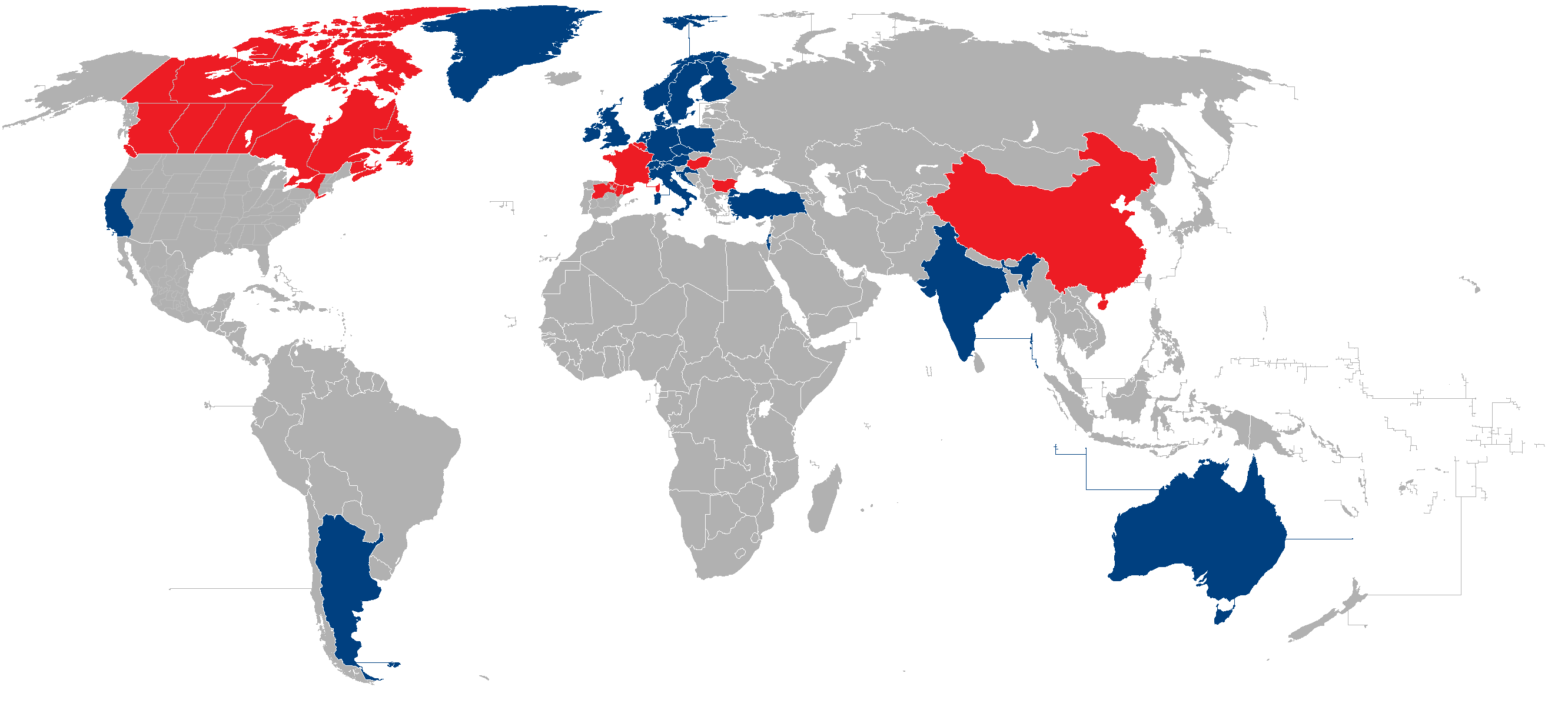 Countries and regions where the production of foie gras is prohibited. Main foie gras-producing countries and regions.